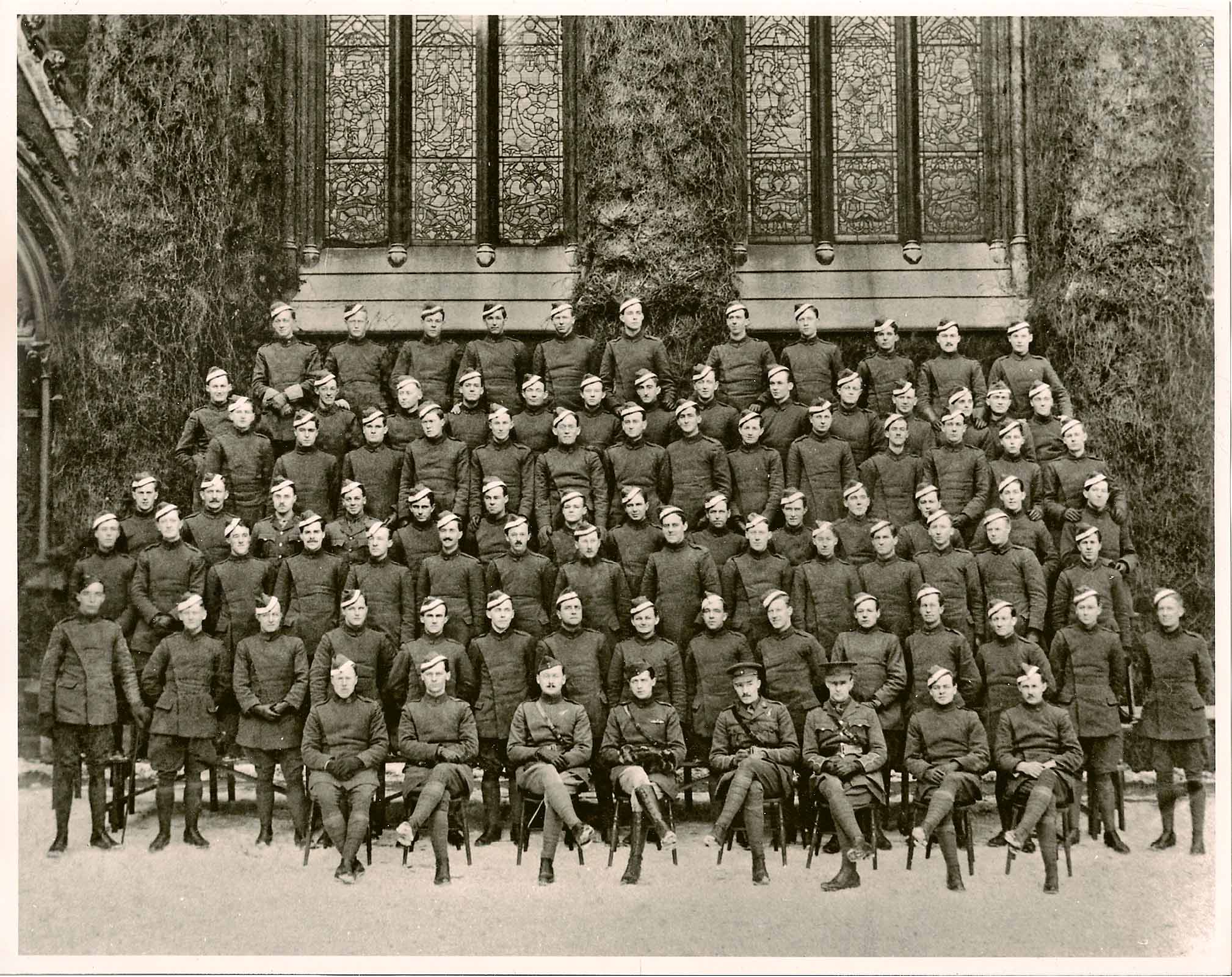 Oxford, England, 1917-02. Formal large group portrait of instructors and part of the first group of 200 Australian cadets from the 1st AIF to attend a School of Aeronautics training course after they had volunteered to train as pilots for the Royal Flying Corps (RFC). The group is assembled in front of the stained glass windows of an Oxford University college in which the school was probably accommodated. The cadets, distinguished by white puggarees around their caps, had responded to a 1916 call from the RFC for AIF officers and other ranks to apply to train as pilots. Left to right: back row: Cedric Ernest Howell; G.T.W. Burkett; unknown; P.H. Moody; Henderson; others unknown. Sixth row: unknown; unknown; L.C. Hornabrook; unknown; H.P. Watson; A.A. Kennedy; Edgar Charles Johnston; F.G. Sutton; unknown; unknown; A.T. Drinkwater; next three unknown; Roy Richards. Fifth row: first three unknown; Court; J. Cowan; C.H.F. Nobbs; unknown; unknown; M.J. Clark; next three unknown; G.H. Bush. Fourth Row: C. Newbold; unknown; unknown; Cocking; Williams; next three unknown; Brewer; unknown; L.J. Balderson; last three unknown. Third row: first three unknown; Ayrton; McKenzie; R.W. (or B.) Heath; unknown; Kenneth Willie Payne; Harcourt Richardson; Finlay; A.E. Palfreyman; unknown; Tinney; J.H.C. Nixon. Second row: unknown sergeant; Francis Stewart Briggs; B. James; unknown; Powell; Powell; Elliott; E.A. (or G.O.) Newton; Cur (Kerr? Curr?); Charles Kingsford Smith; Mackay; Halford; C.G. Fenton; G.H. Bush; unknown. Front row: Guy N. Moore; C.W.B. Martin; unknown instructors; R.J. Brownell; unknown. Australian War Memorial ID P00864.001 ( Original print held in AWM Archive Store, Donor K. Payne)